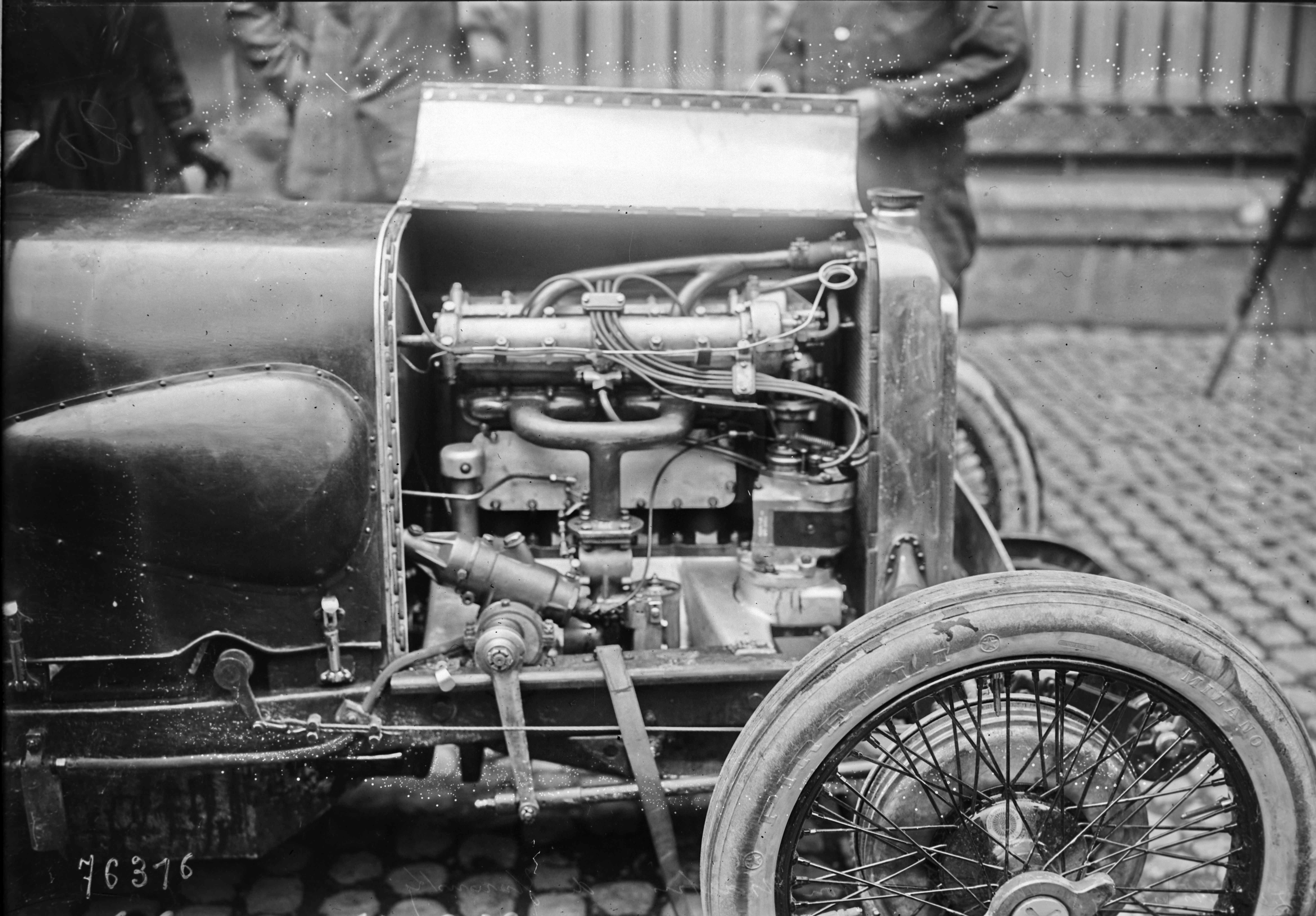 Louis Zborowski at the 1922 French Grand Prix